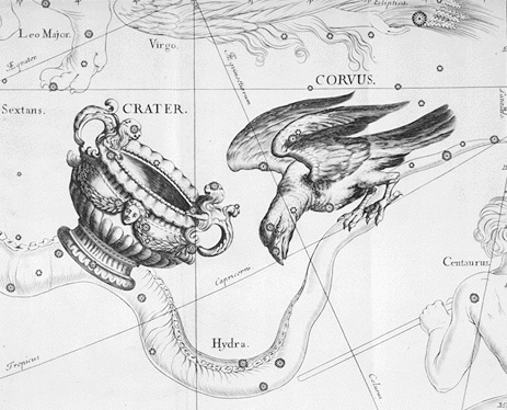 The Corvus (constellation) and Crater (constellation) constellations from Uranographia by Johannes Hevelius. The view is mirrored following the tradition of celestial globes, showing the celestial sphere in a view from "ouside"